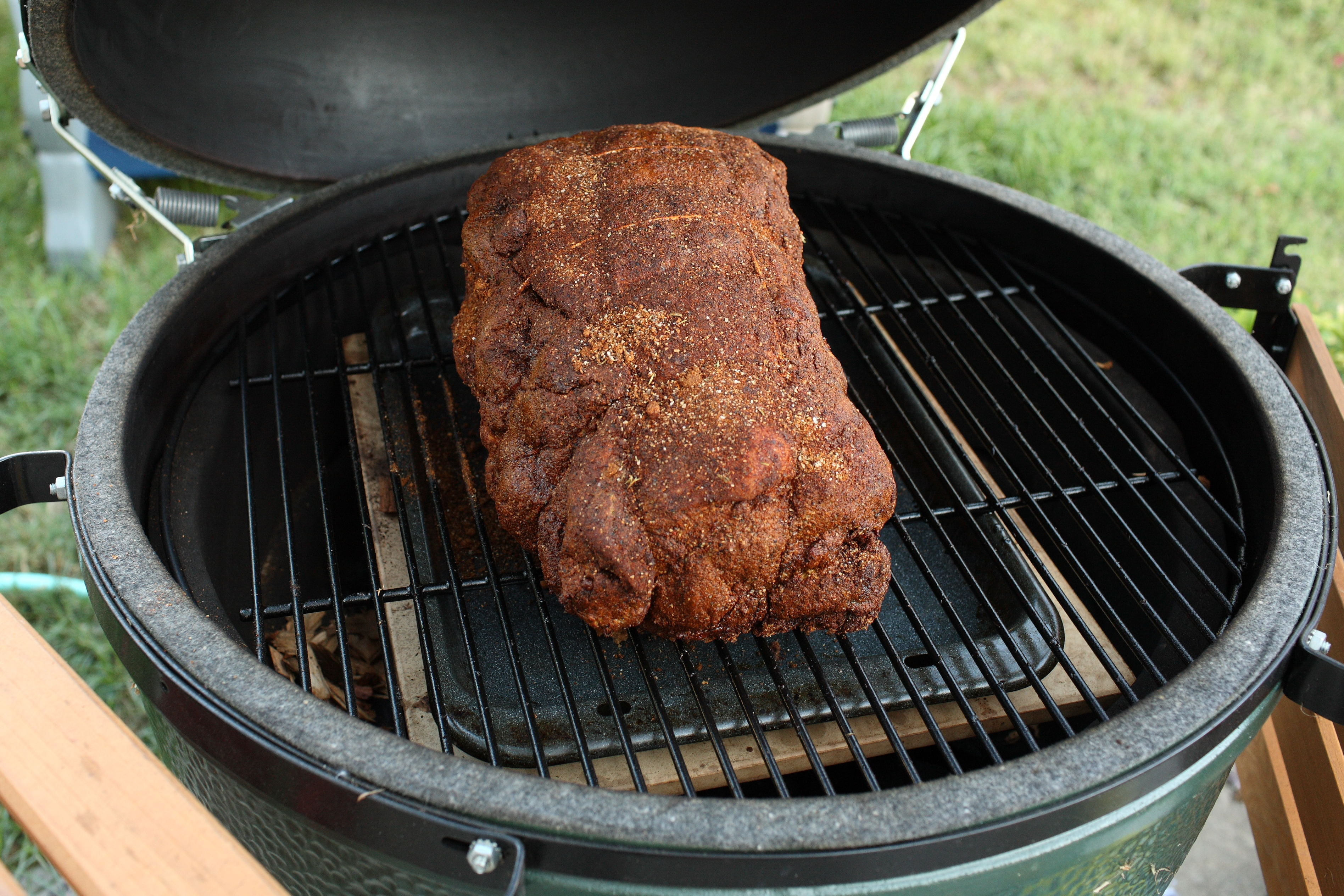 A 14lb pork shoulder, rubbed with a spice rub, before 21 hours of indirect cooking at 225 degrees F on a Green Egg smoker/grill. After extended cooking, the pork will be tender enough to be shredded with forks into 'pulled pork'.